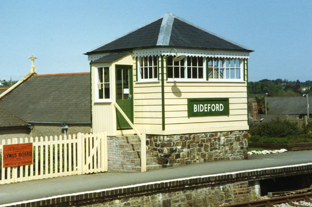 Bideford: signalbox at Bideford Station. Replica of original signalbox built by the London & South Western Railway. The station survives at East-the-Water""